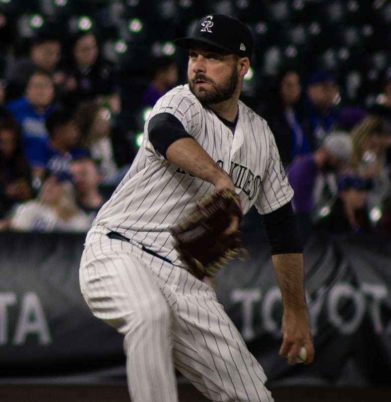 Harrison Musgrave of the Colorado Rockies delivering a pitch against the Los Angeles Dodgers on April 7, 2019.